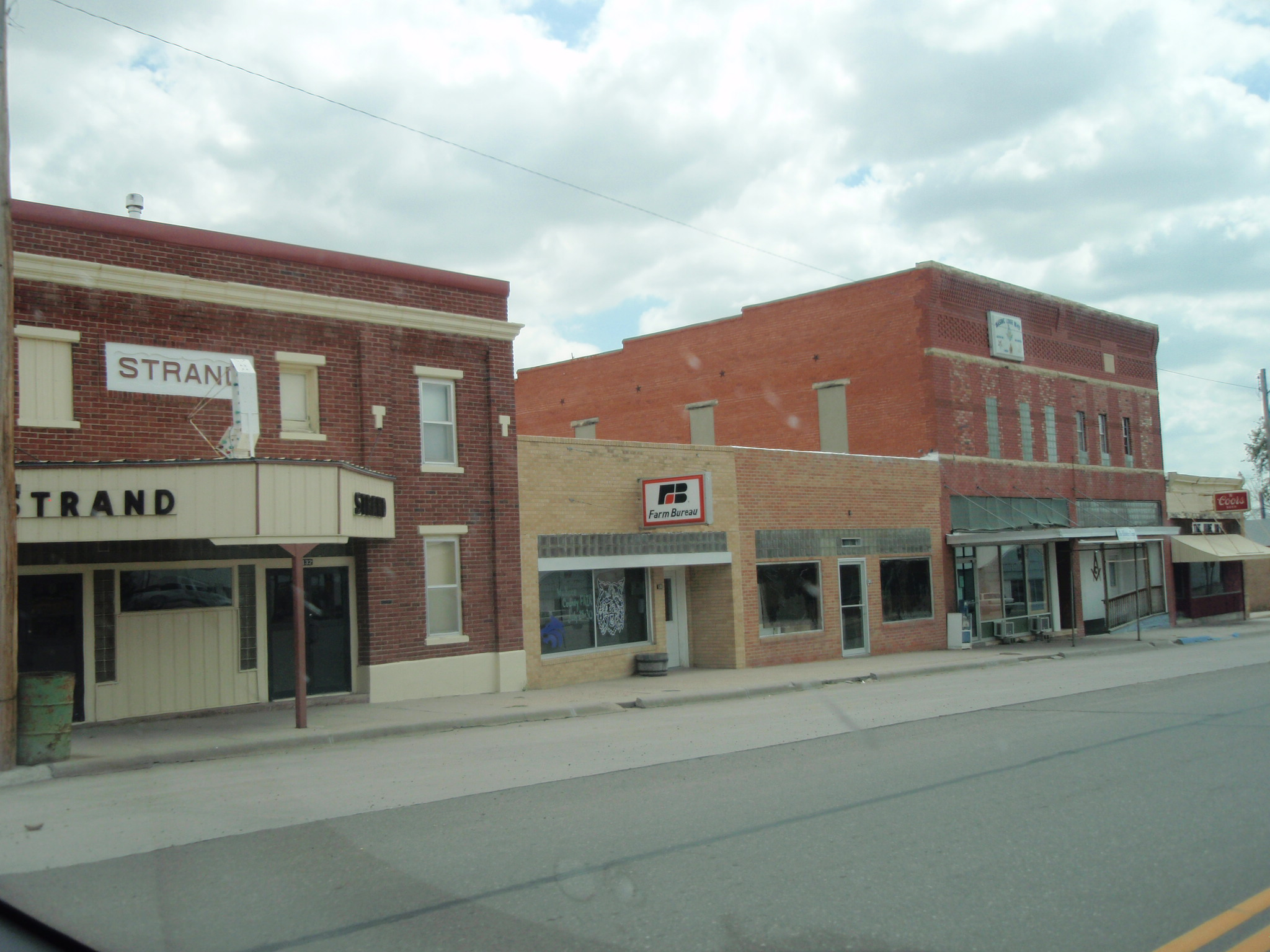 Sharon Springs Kansas Business Distric